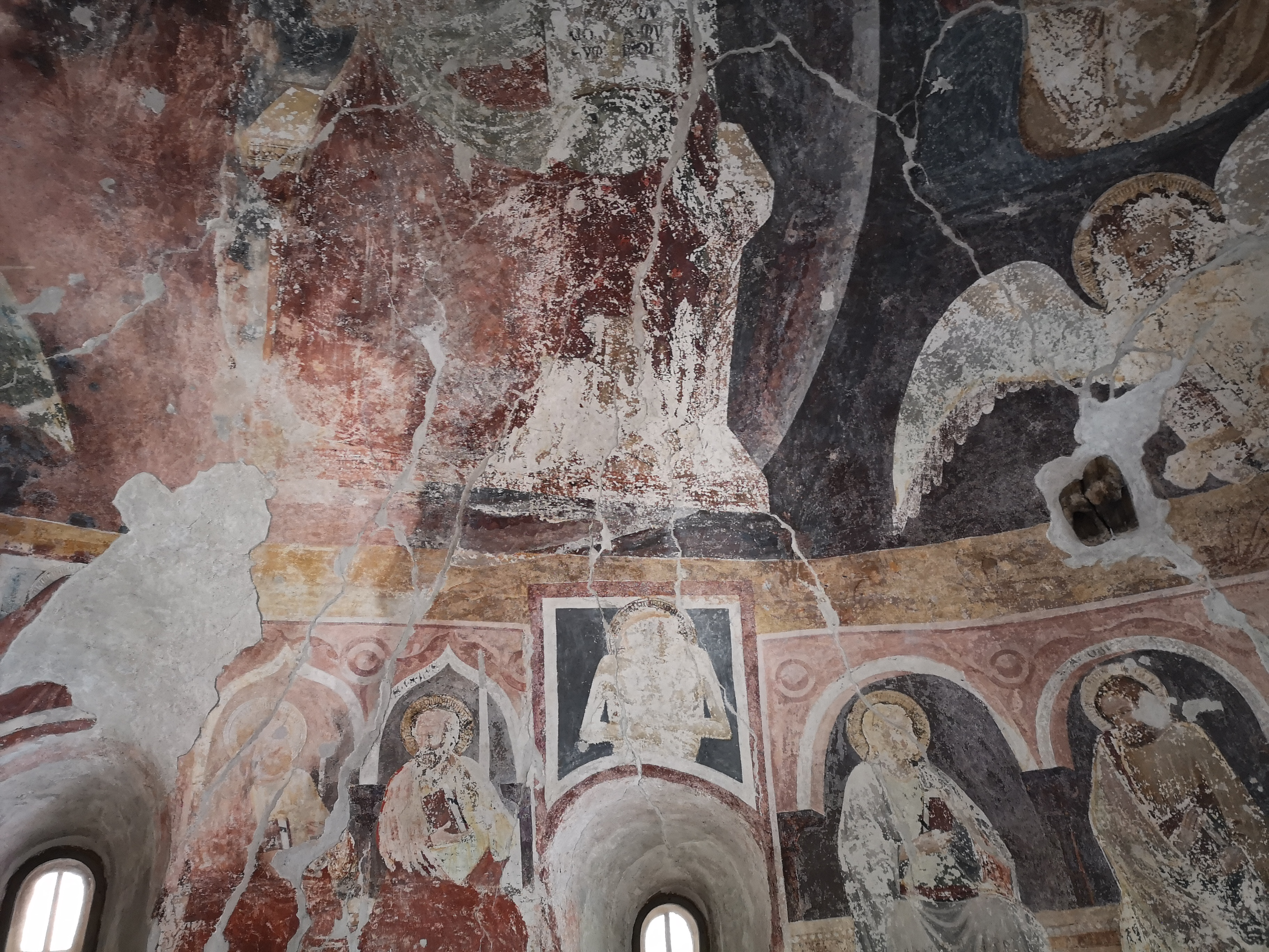 Fresken der alten Ostapsis von St. Lorenz in Rentsch-Bozen